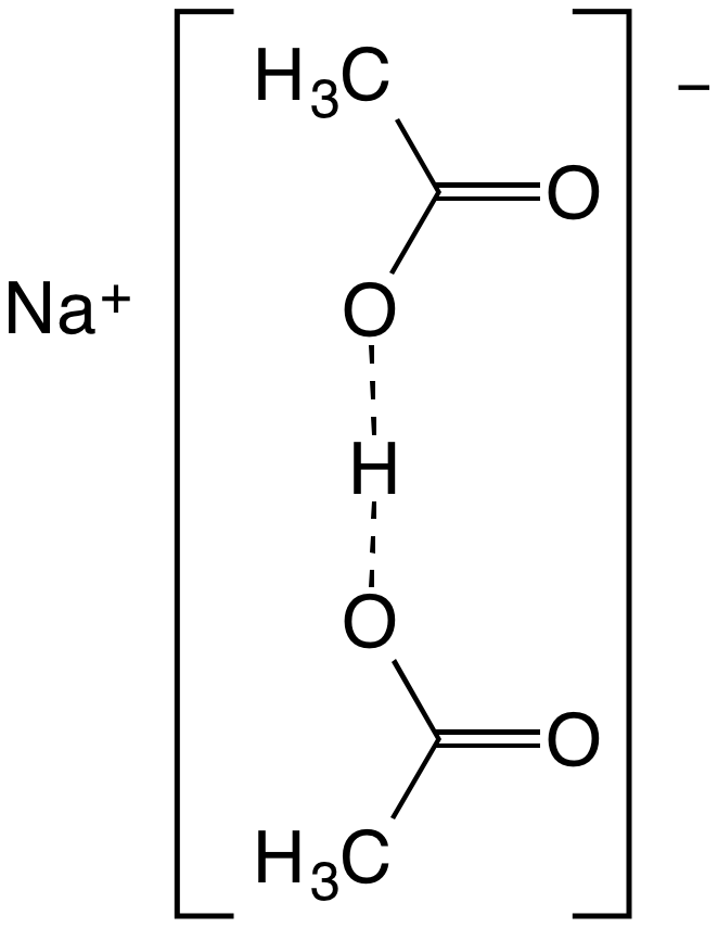 Structure of diacetate anion with Na+